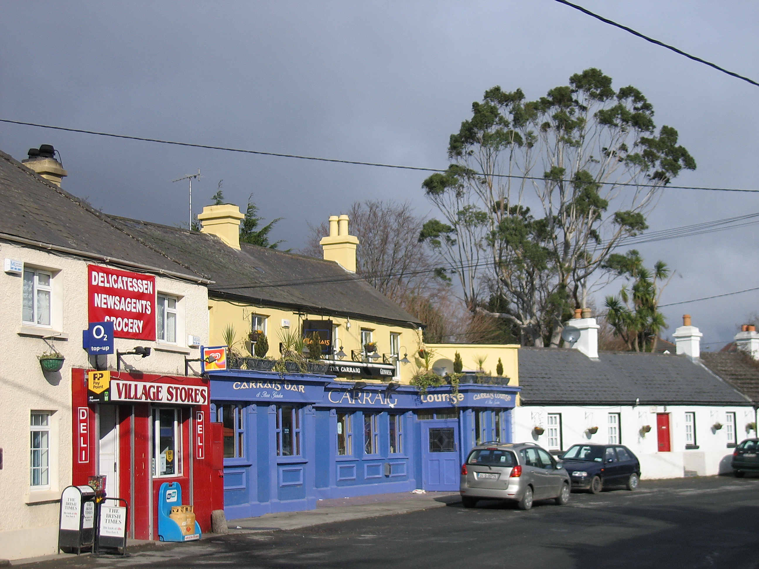 Killincarrig, County Wicklow, near to Ballynerrin, Deilgne, na Clocha Liatha, Knockroe and Redford, Wicklow, Ireland. Killincarrig is the meat in the sandwich between Delgany and Greystones. They are all joined up now so I guess this is a suburb of Greystones.